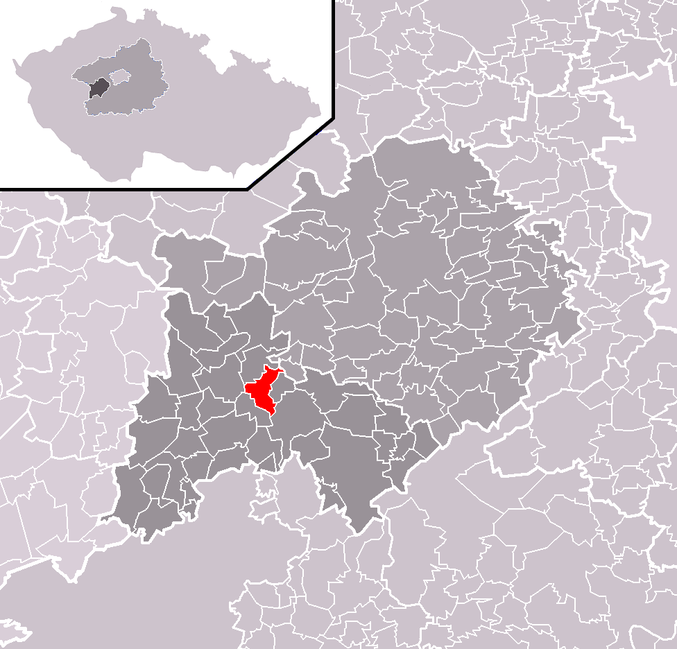 Location of Praskolesy municipality within Beroun District and administrative area of Hořovice as a Municipality with Extended Competence.